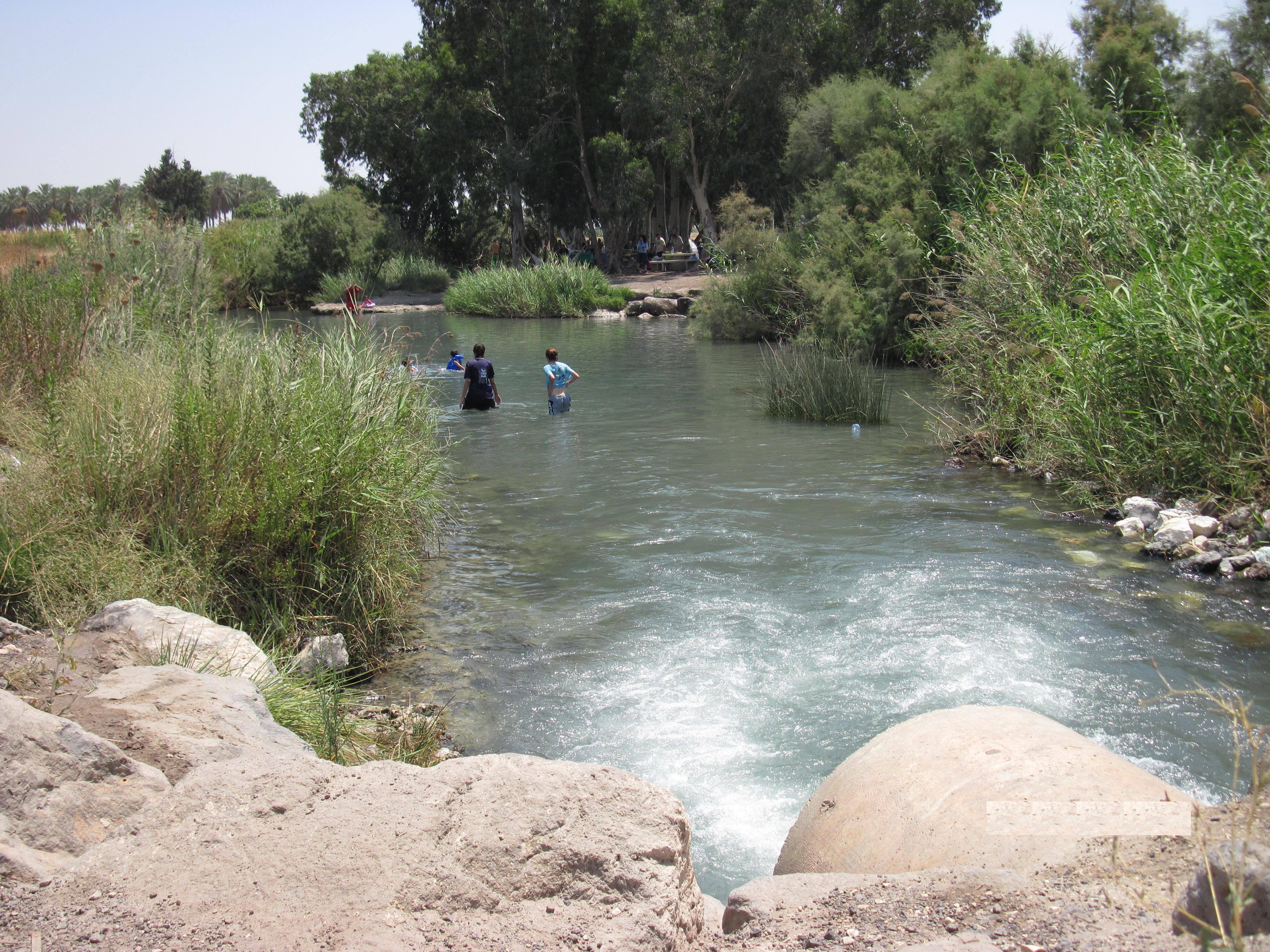 The Kibutzim Stream, Geography of Israel